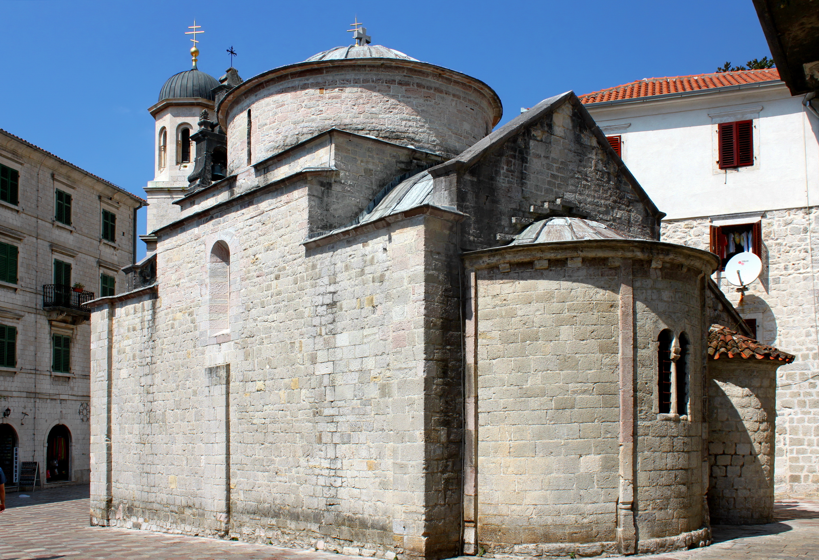 Saint Luke church. Kotor, Montenegro.